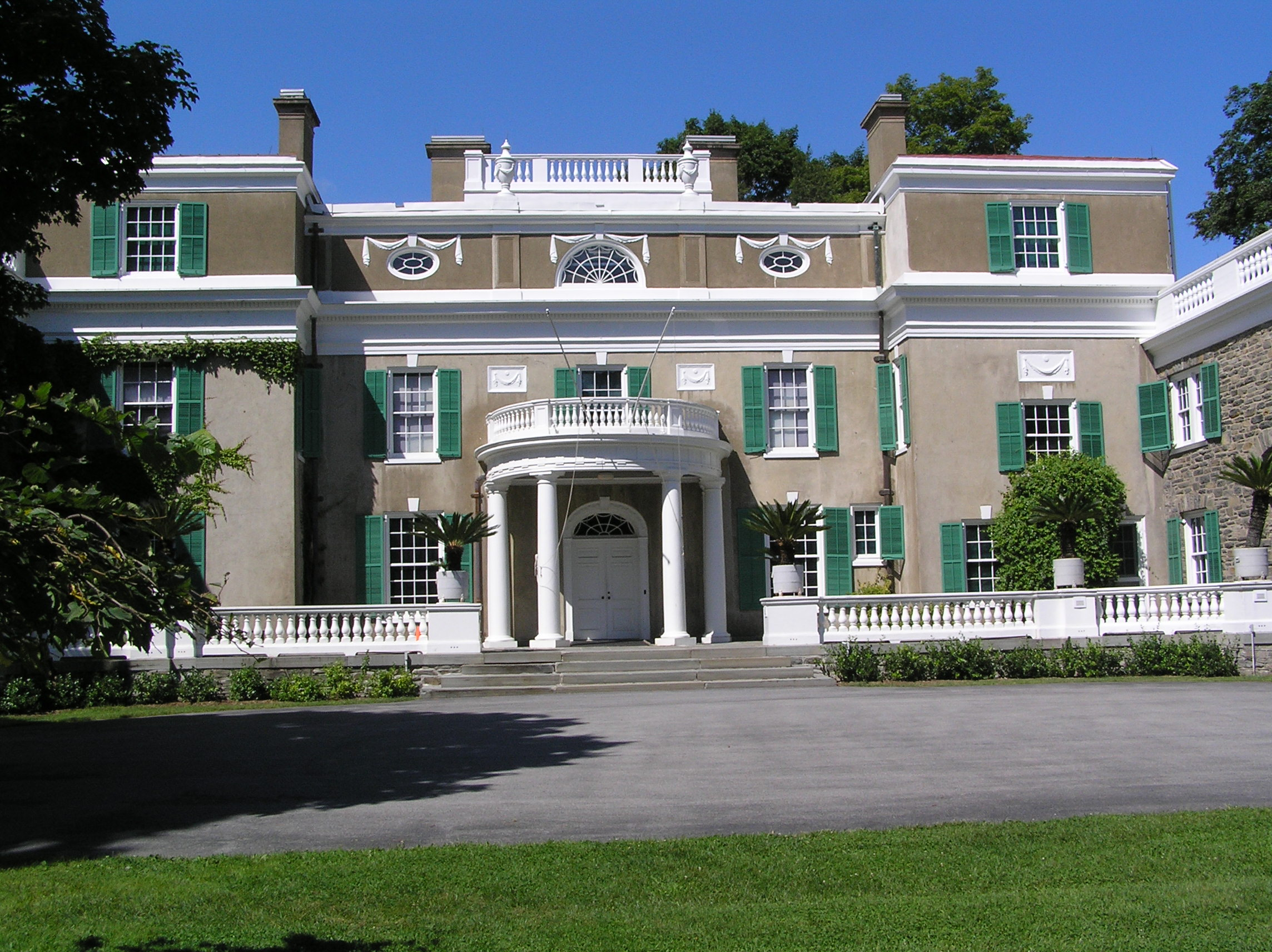 A photograph of Springwood, the birthplace of Franklin D. Roosevelt in 1882 at Hyde Park, NY